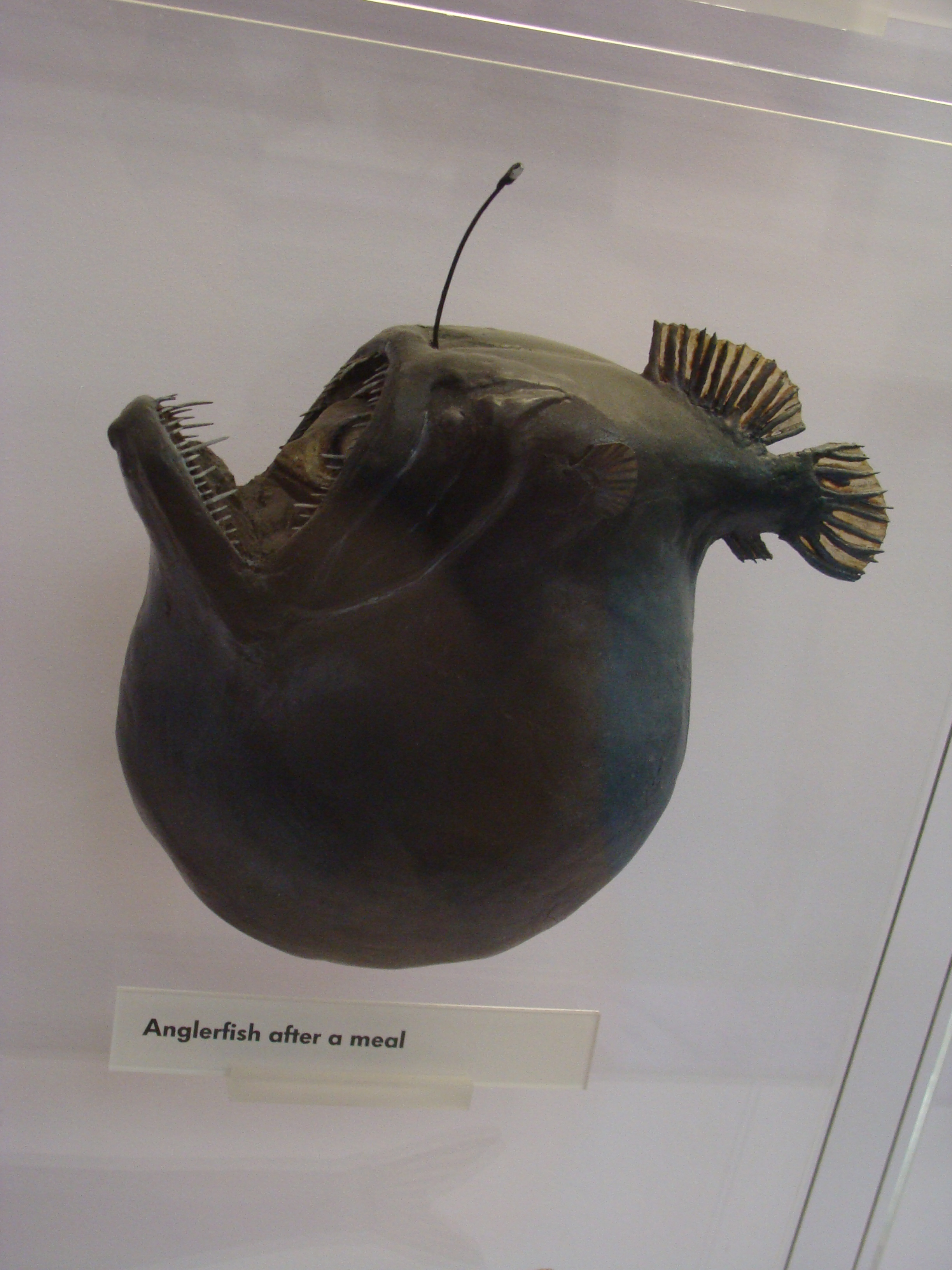 Melanocetus johnsonii (Black seadevil) in the Natural History Museum of London